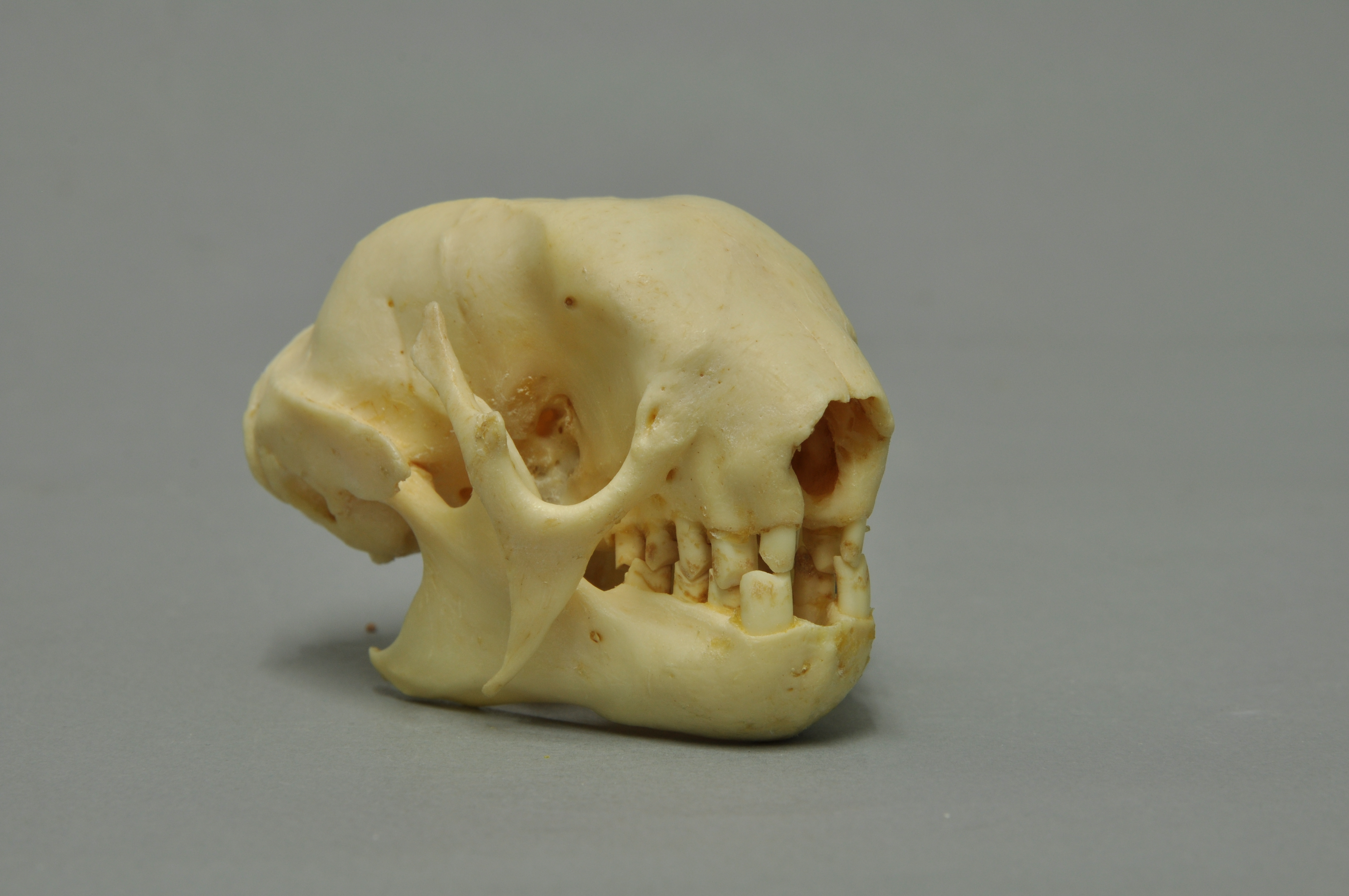 Pale-throated sloth Bradypus tridactylus, skull, Coll. Museum Wiesbaden